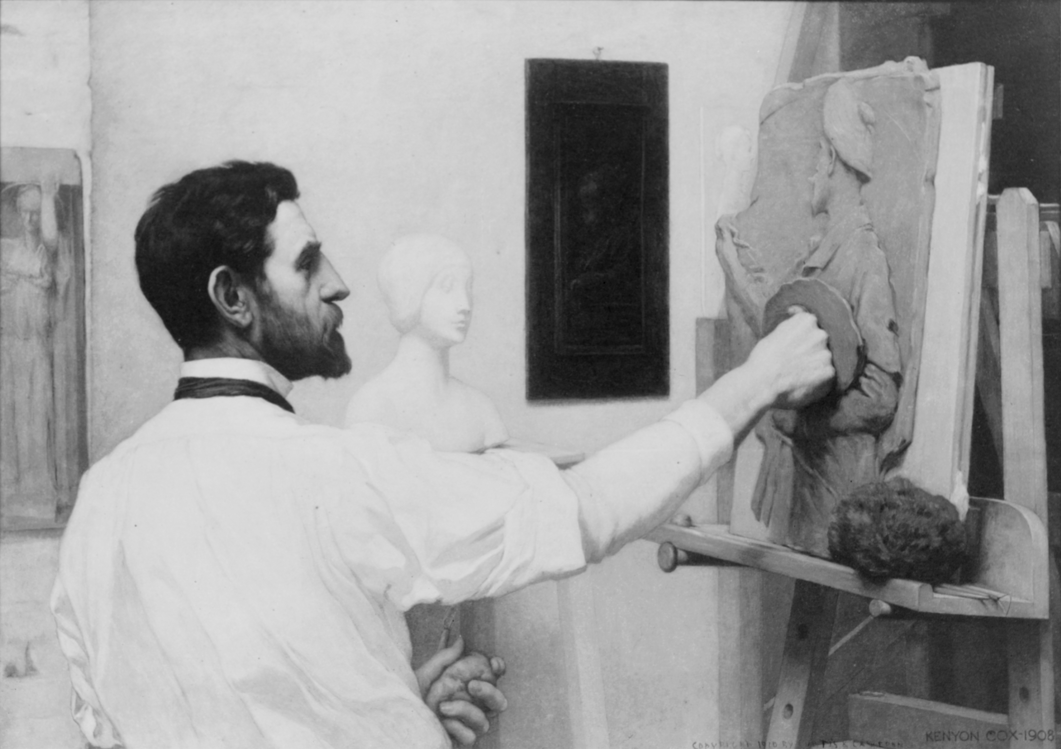 Cox and Augustus Saint-Gaudens (1848–1907) met in Paris in the 1870s and exchanged portraits in 1887: an oil painting for a bronze relief. The original canvas was lost in Saint-Gaudens’s 1904 studio fire, so Cox created this replica in time for the Metropolitan Museum’s 1908 memorial exhibition of the sculptor’s work.